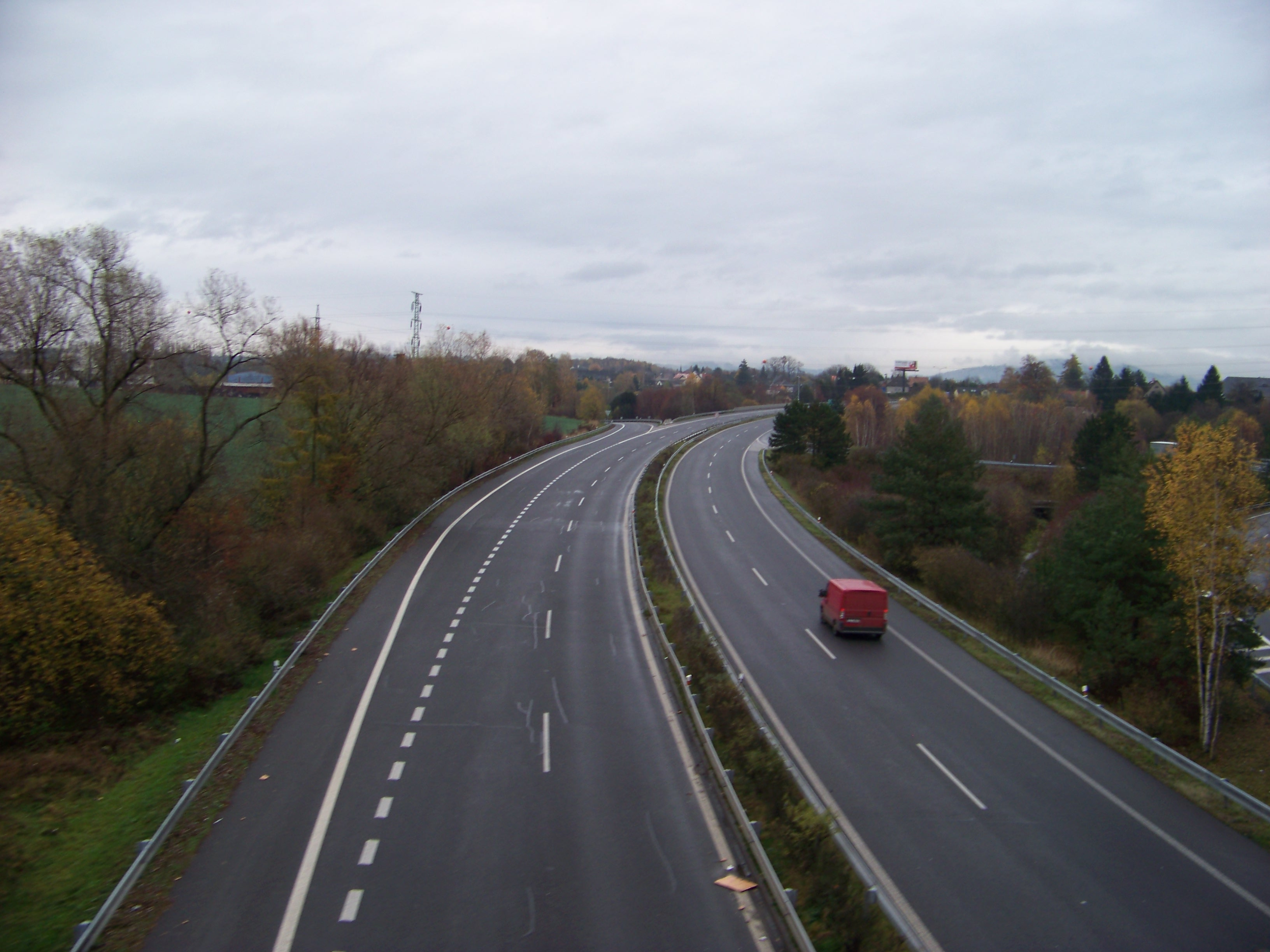 Lažany, Liberec District, and Ohrazenice, Semily District, Liberec Region, Czech Republic. R10 expressway.